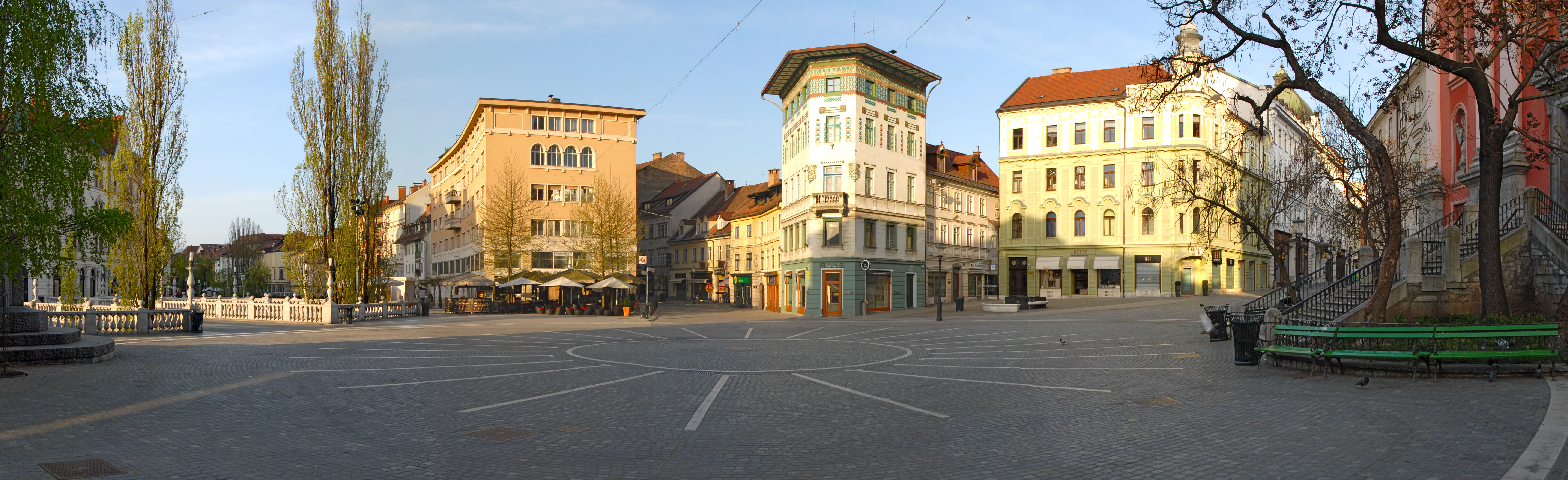 Prešeren square in Ljubljana